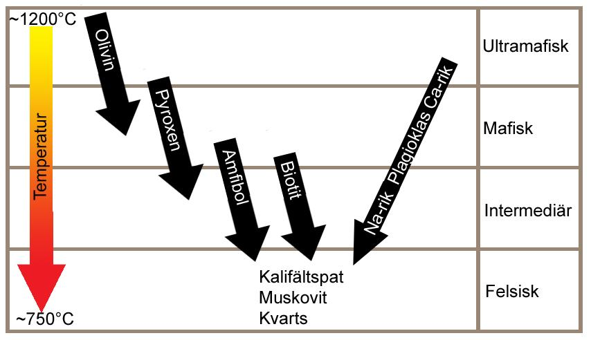 The Bowen reaction series in swedish